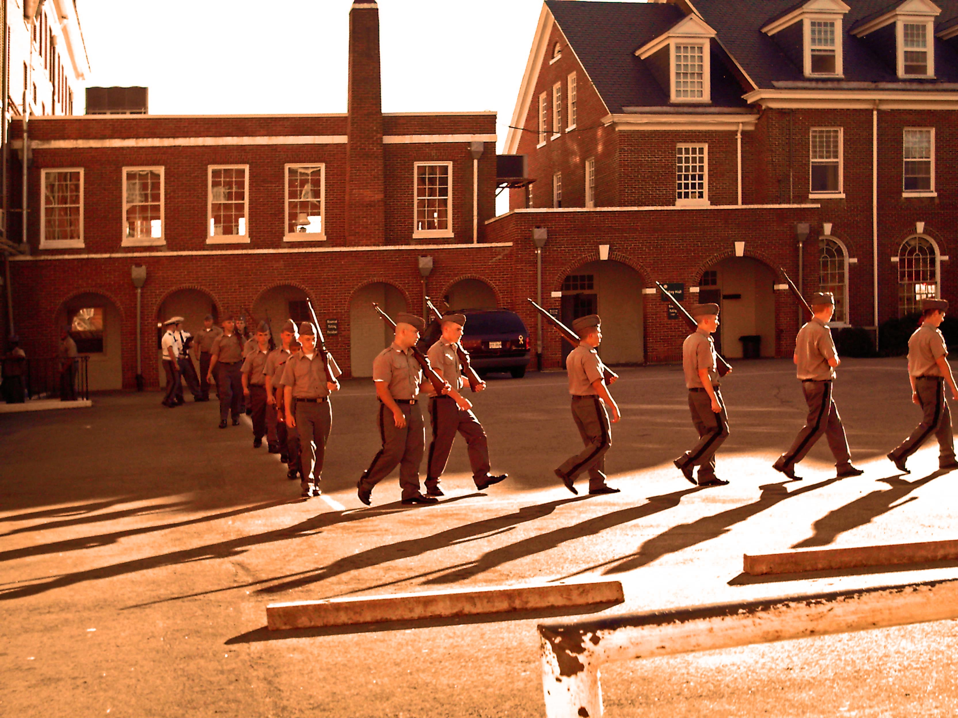 This is my picture that i took to place on wiki to show the bullring